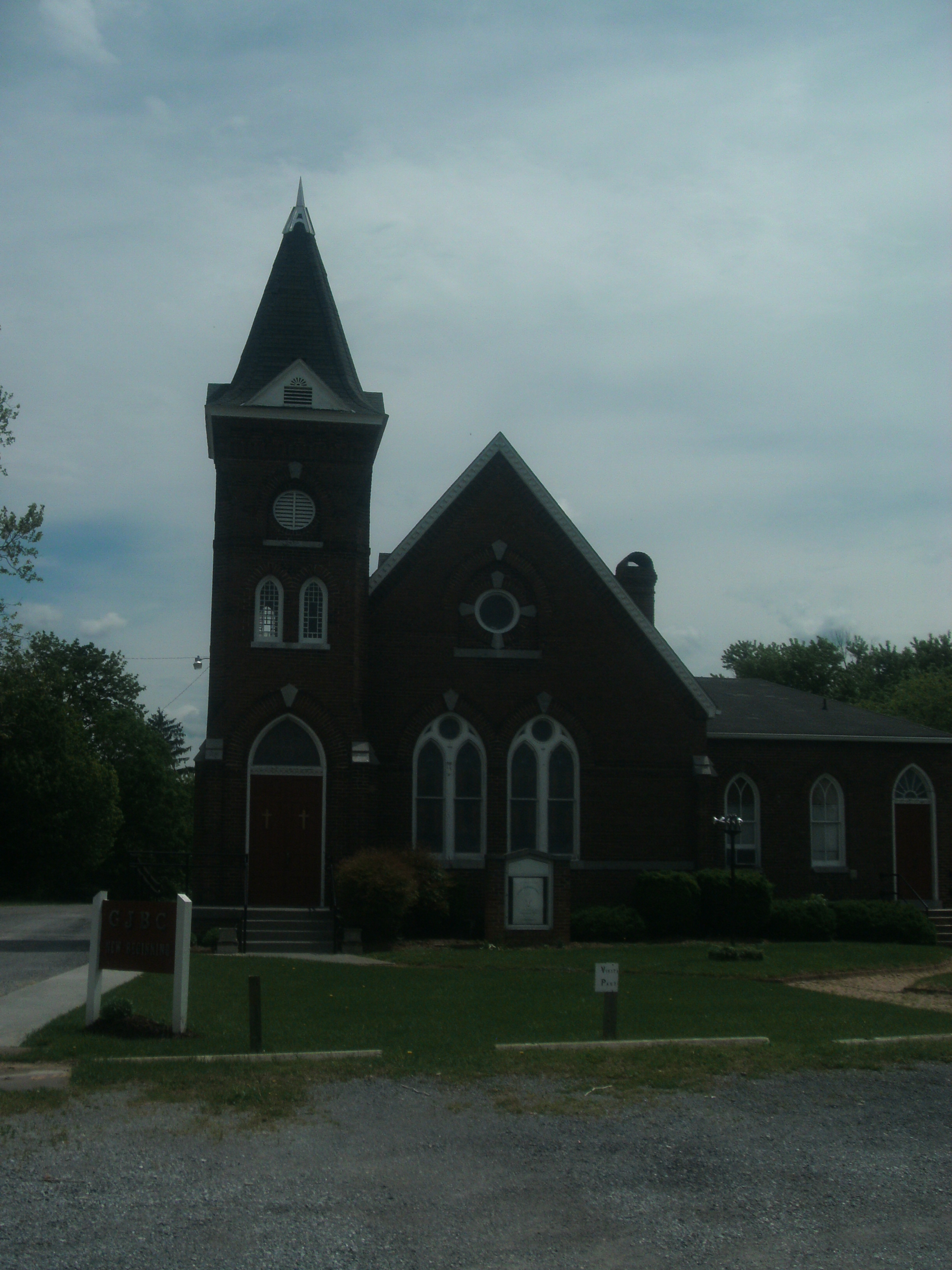 Riverton United Methodist Church, Front Royal, Virginia; part of the Riverton Historic District.